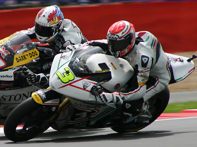 Simone Corsi 2010 Silverstone